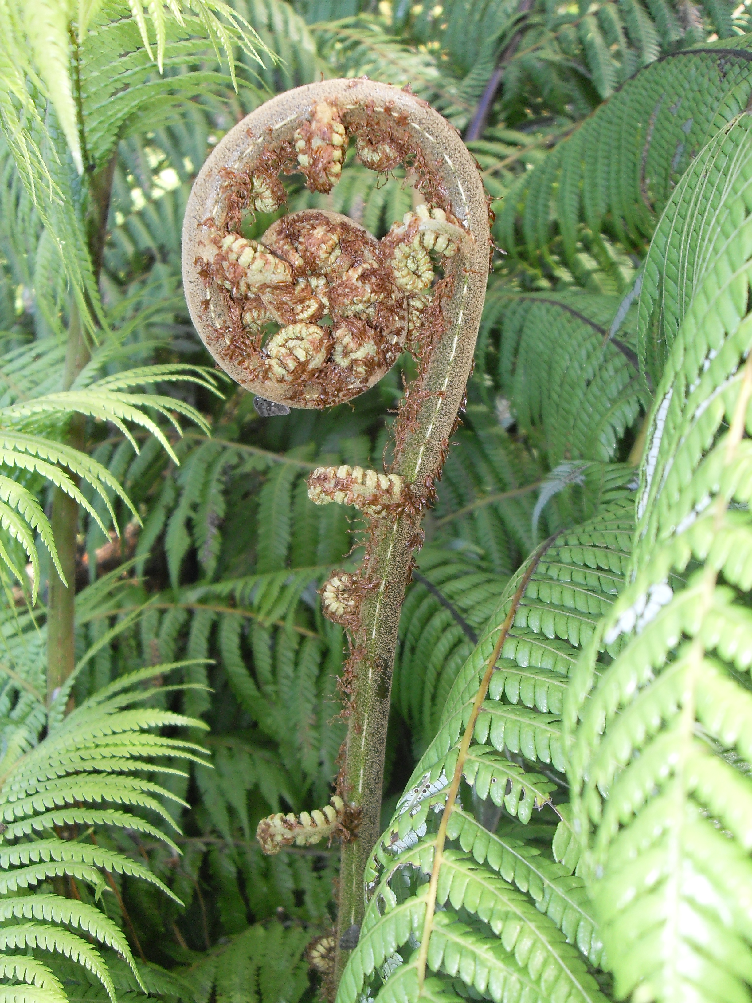 Koru of Silver Fern (Cyathea dealbata)